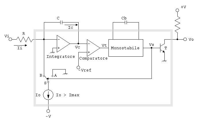 Conceptual schematic of a voltage/frequency converter, or voltage-controlled oscillator